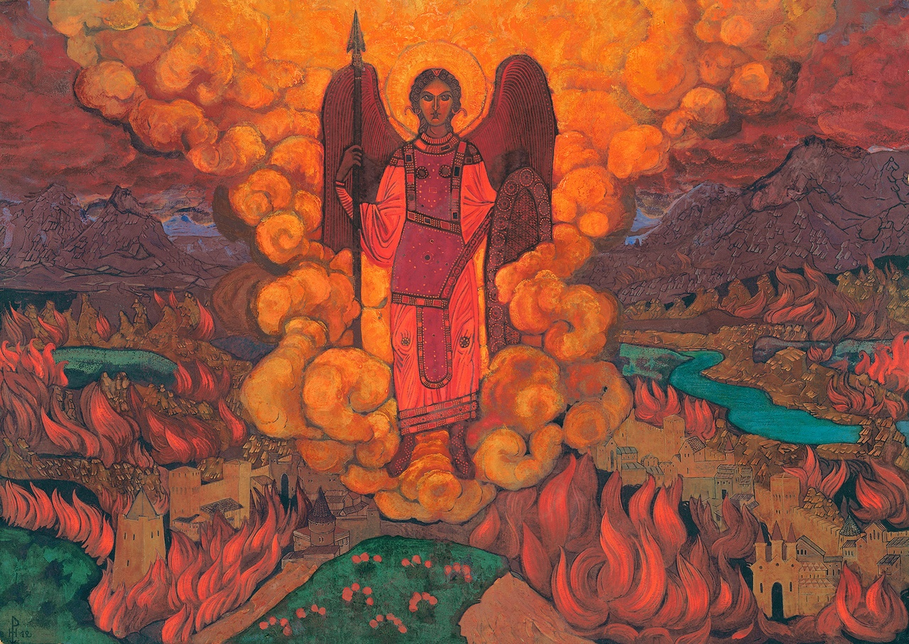 "Last Angel", 1912. Tempera on cardboard. 52х73,6 cm. Перед Первой Мировой войной в искусстве Николая Константиновича с особой силой прозвучала тема возмездия, впервые раскрытая в полотне "Ангел последний" (1912). Над объятой пламенем землей - непреклонно стоящий среди клубящихся огненных облаков ангел, воздающий по заслугам за все содеянное зло, а на далеком горизонте - сверкающие зарницы оповещают о новой жизни на очищенной от скверны планете. Рерих как бы провидит зарево военных пожарищ. Не случайно Максим Горький называл Рериха "великим интуитивистом". Многие художники и писатели предчувствовали надвигающуюся катастрофу, и в их творчестве нашло отражение растущее чувство тревоги. Много картин Рерих написал в 1912-1914 годах. В этих полотнах было достаточно предсказаний катаклизмов, ведущих к разрушению мира: "Ангел Последний" (1912), "Меч доблести" (1912), "Крик змия" (1913), "Град обреченный" (1914), "Вестник" (1914). Все они предвещали неотвратимые страдания и разрушения через мощные аллегорические символы, взятые из фольклора и библейских сюжетов. "И видел я другого Ангела сильного, сходящего с неба, облеченного облаком; над головою его была радуга, и лице его, как солнце, и ноги его как столпы огненные…" ("Откровение Св. Иоанна", гл. 10.) ...И пролетит над землею Ангел конца, Грозный, прегрозный! Красный, прекрасный! Ангел последний.